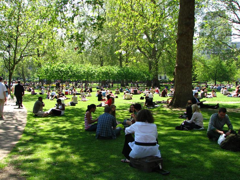 Summer Love of Russell Square